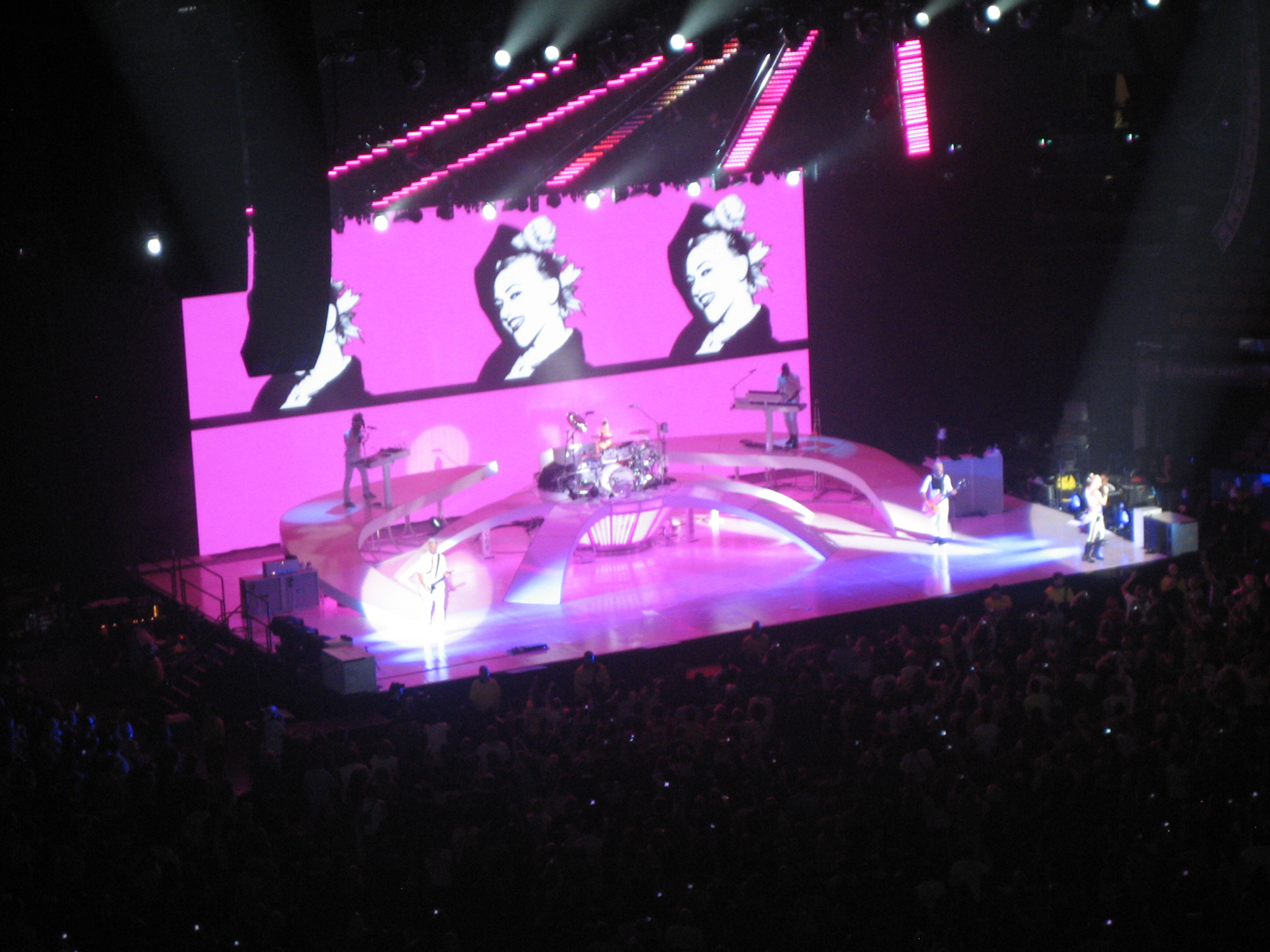 No Doubt performing "Bathwater" at the Air Canada Centre, Toronto